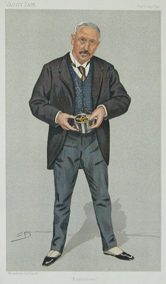 Caricature of Colonel Vivian Dering Majendie CB (1826-1898, HM Inspector of Explosives. Caption read: "Explosives". See New York Times obituary 25 April 1898